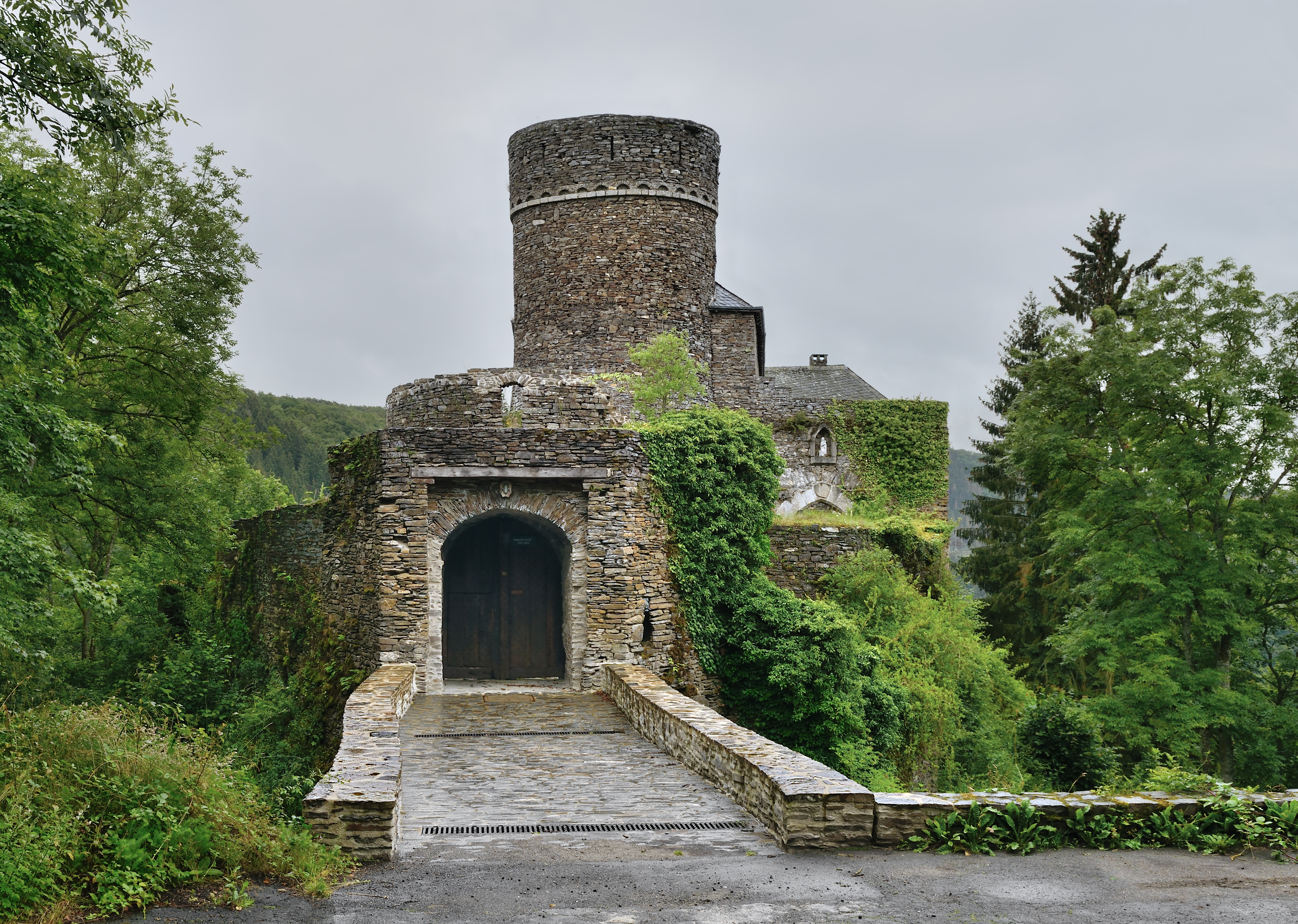 Luxembourg, municipality of Kiischpelt: Schuttbourg castle near Kautenbach.